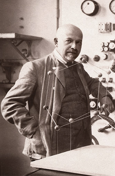 Professor Joseph von Geitler, Austrian physicist, died 1923